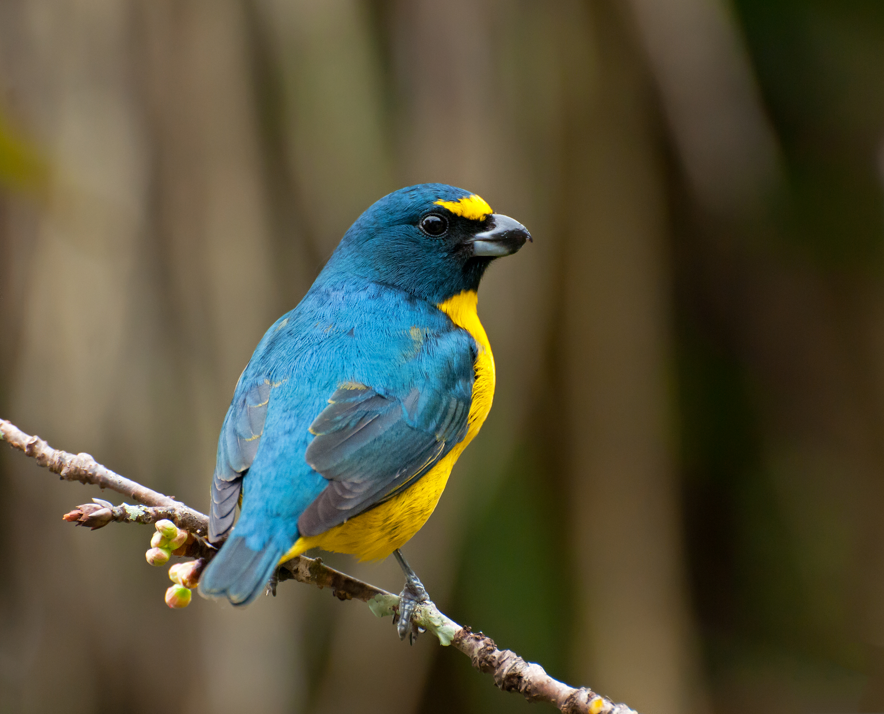 A male Green-chinned Euphonia in Vale do Ribeira, Registro, São Paulo, Brazil.